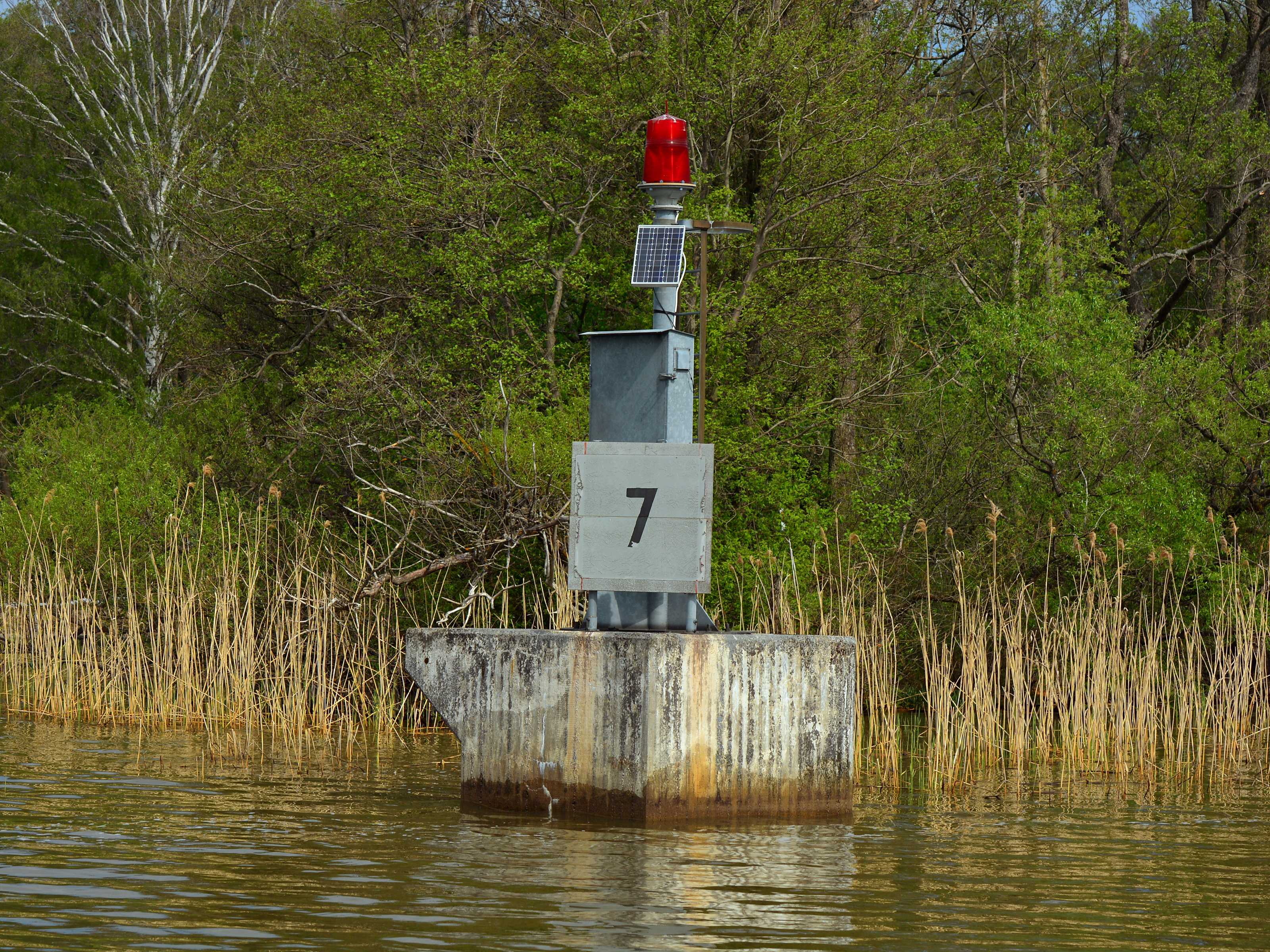 The lighthouse Haga by lake Mälaren south of Enköping.